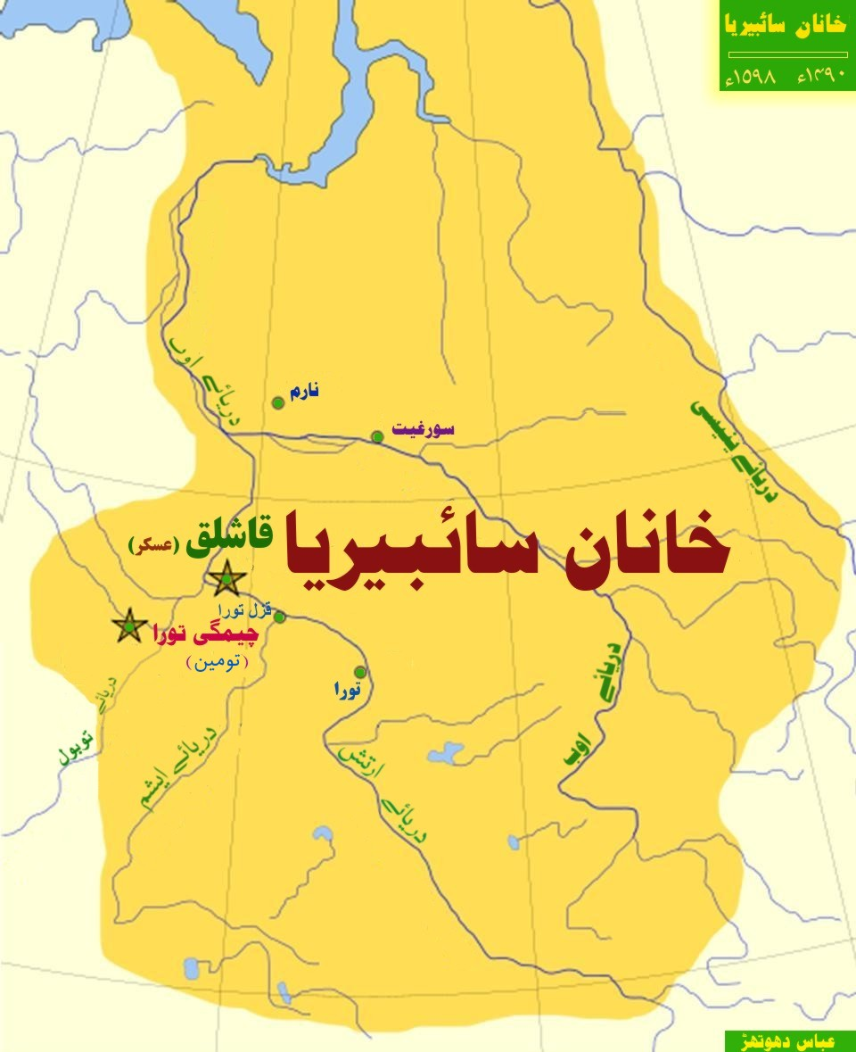 Map of Khanate of Siberia in Punjabi.